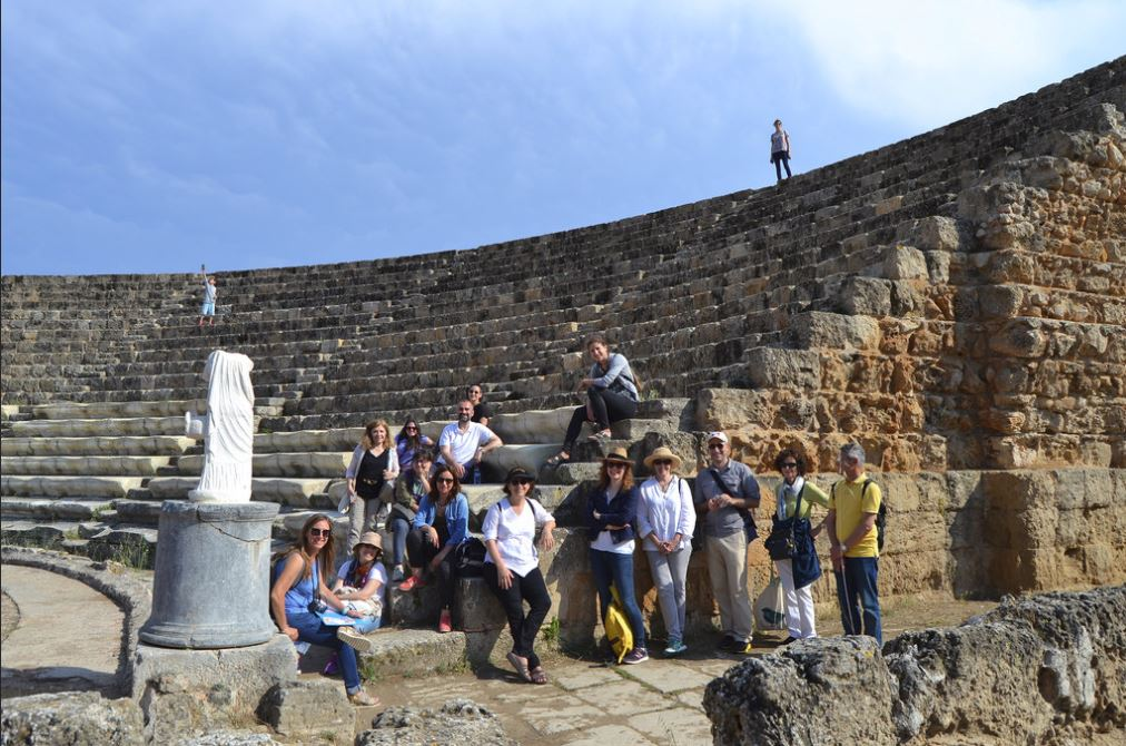 Mediterranean Palimpsests group at Salamis, Northern Cyprus